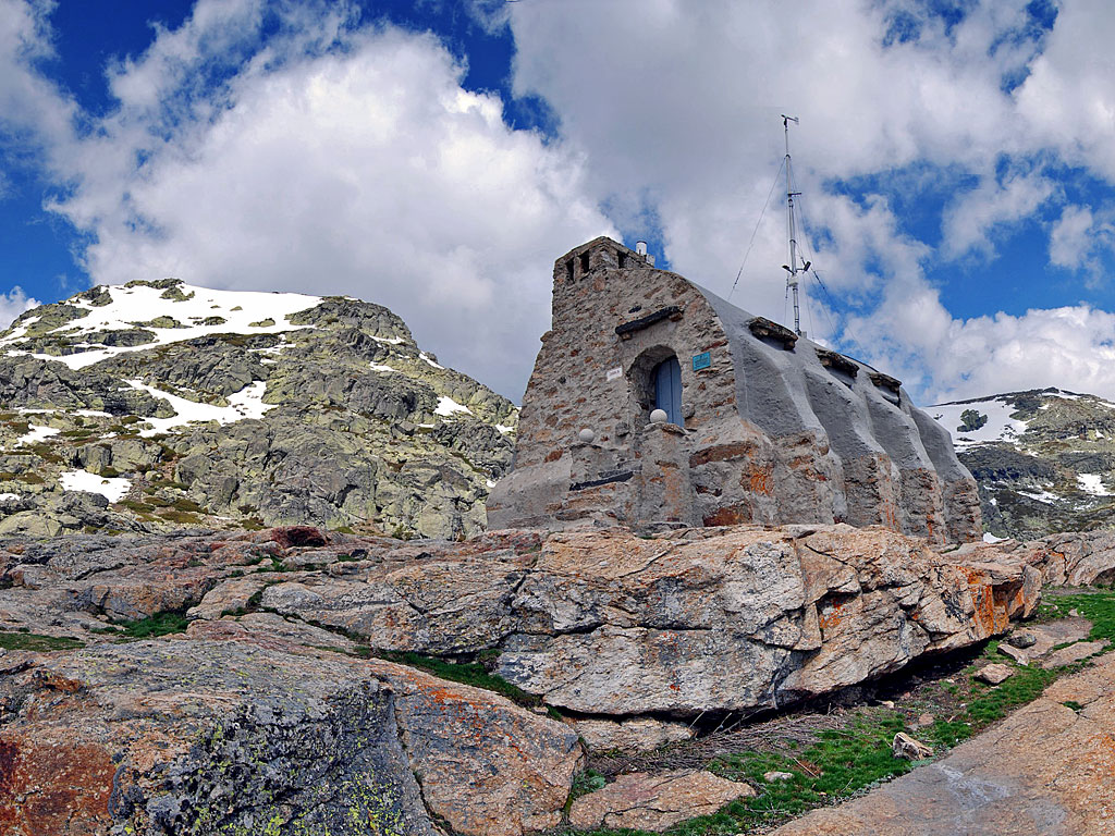 A view of the Mountaing Refuge with the Hermana Mayor Peak in to the left and the Peñalara Peak in the background.